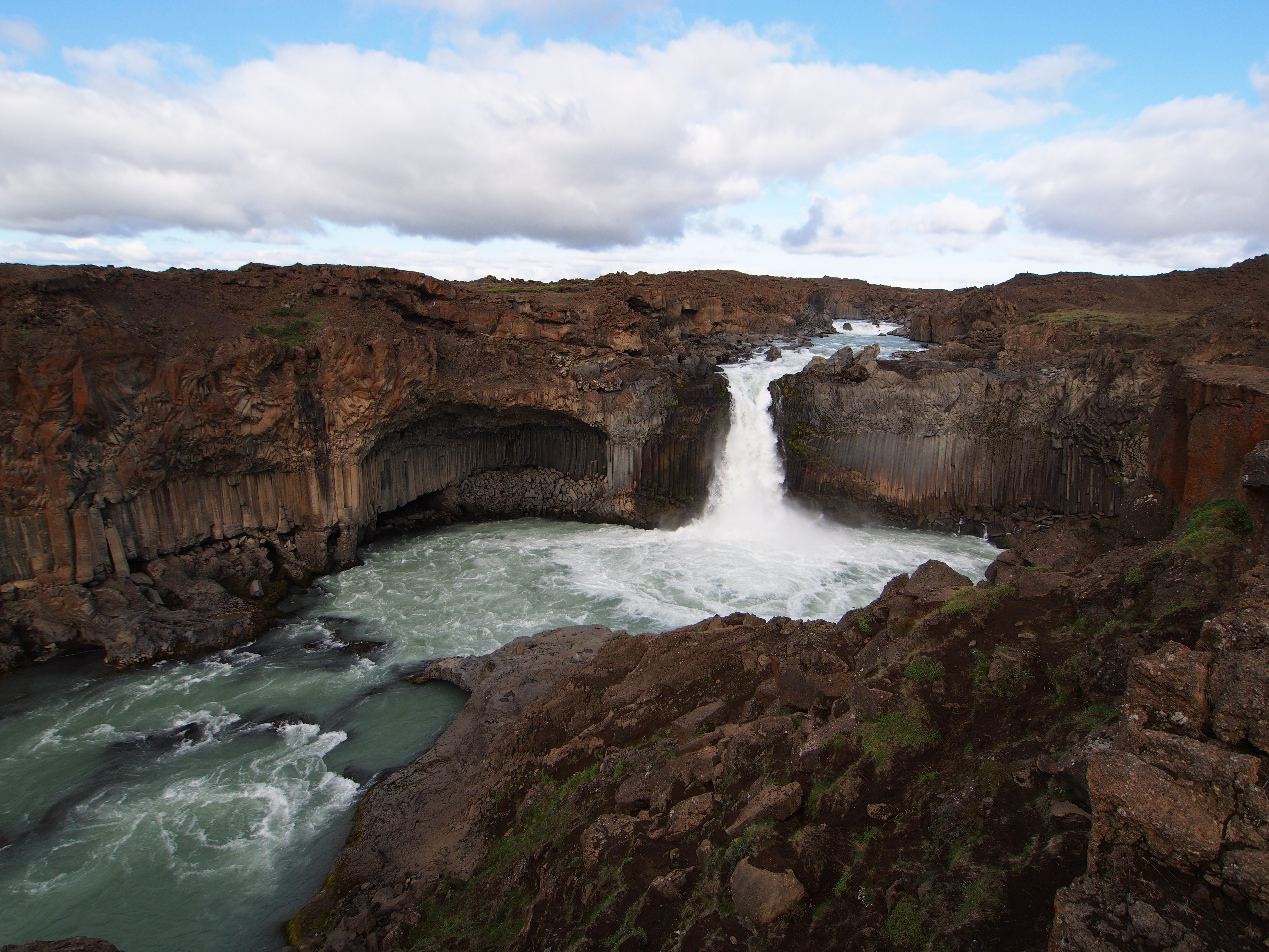 Waterfall Aldeyjarfoss and Black Basalt Columns - 2013.08